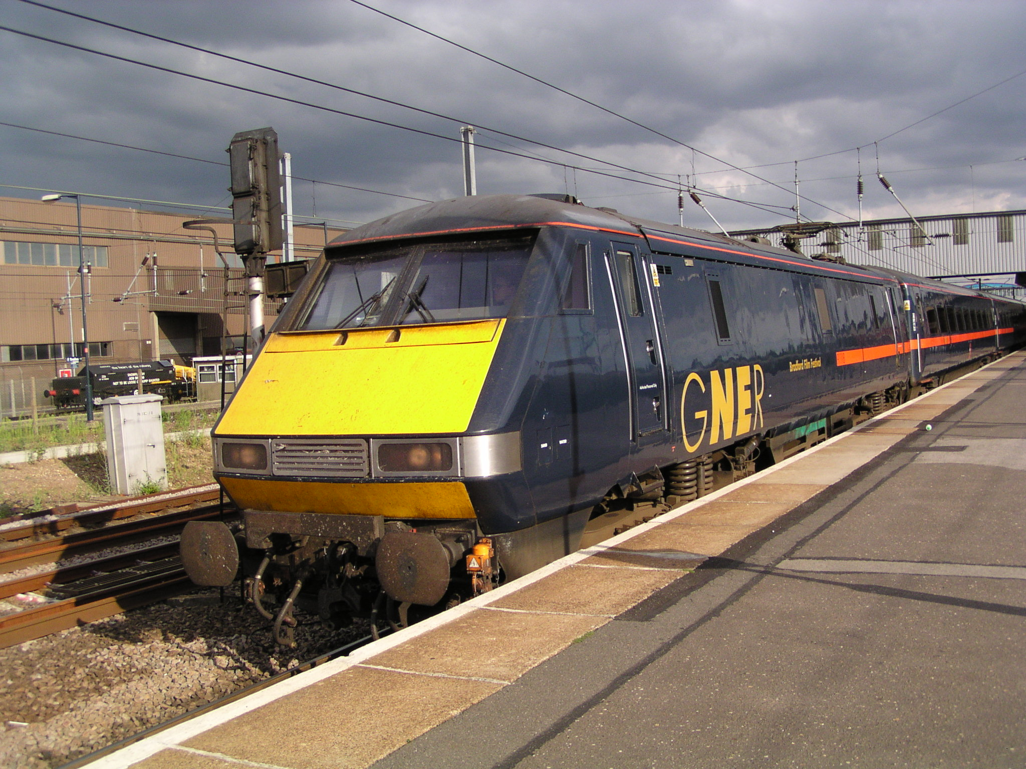 BR Class 91/1, no. 91118 "Bradford Film Festival" at Peterborough on 27th July 2003. This locomotive is painted in GNER blue livery.